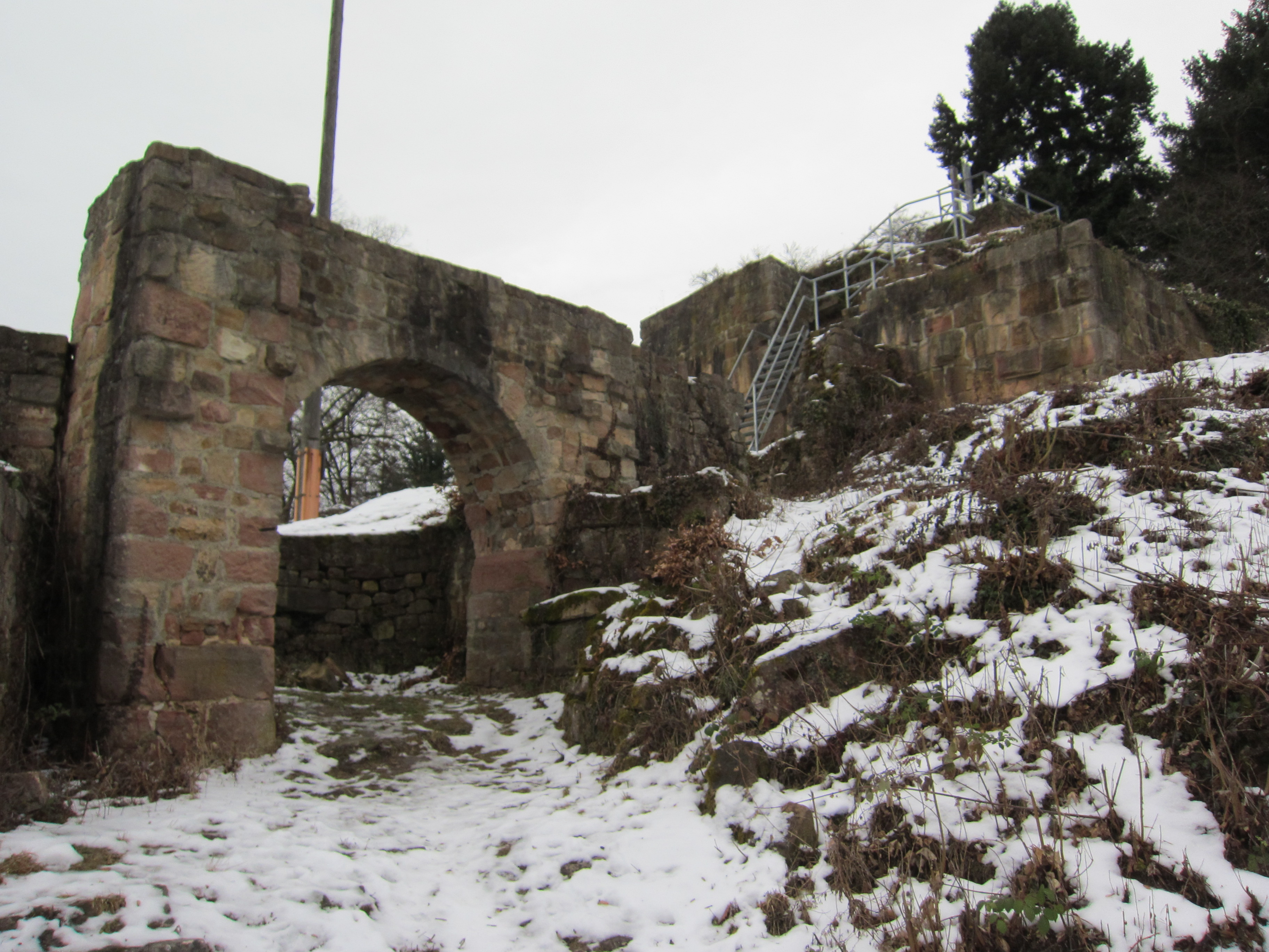 Kirnburg, gate and stump of the Bergfried